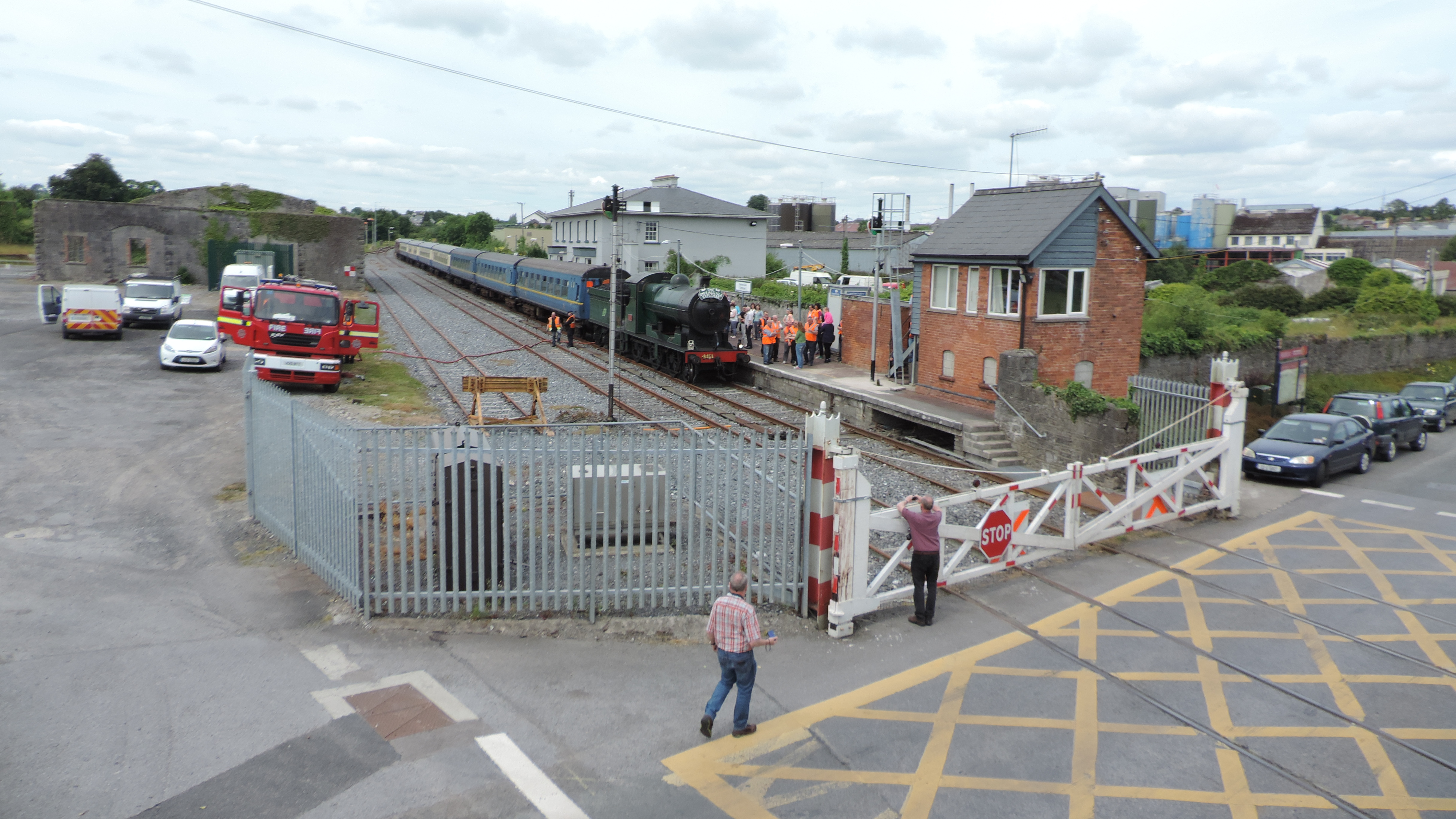 Photo of Steam Train at Tipperary Railway Station